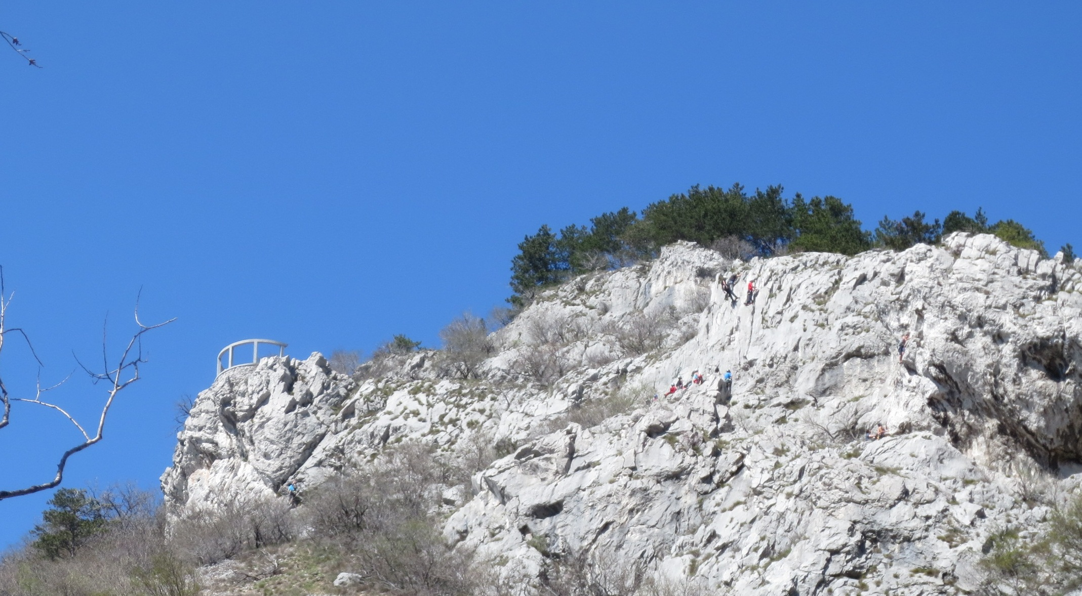 Climbers in the rocks Val Rosandra / Dolina Glinščice.